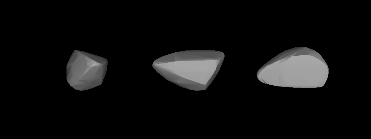 A three-dimensional model of 1704 Wachmann that was computed using light curve inversion techniques.